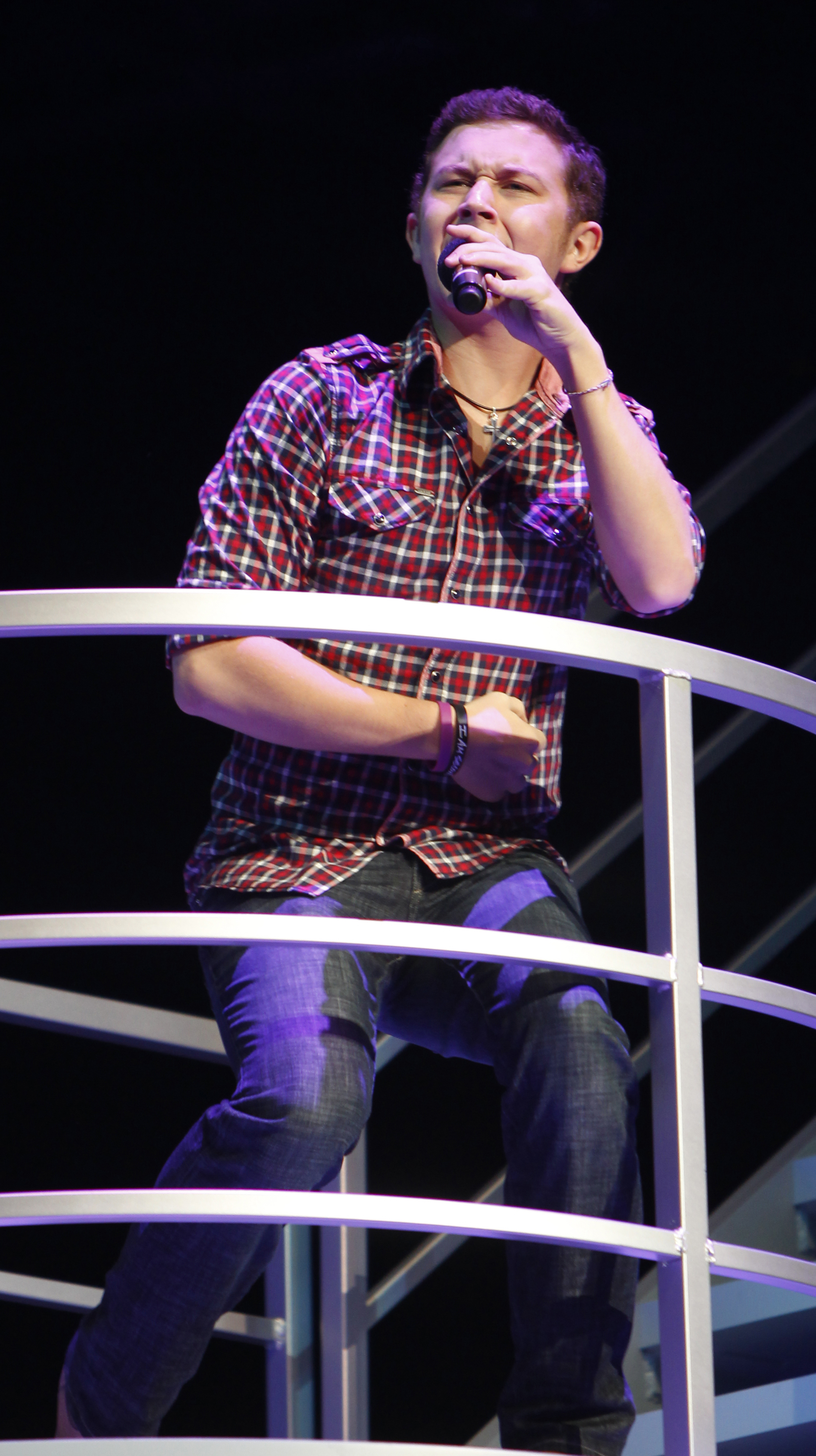 American Idol winner Scotty McCreery gets the crowd going by singing at the 2011 Walmart Shareholders Meeting in Fayetteville, Arkansas. To watch the replay of the event, view videos, and join the conversation, visit